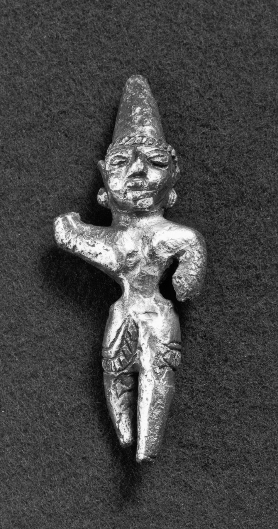 This god wears the tall conical headdress and short skirt of Hittite deities. He raises one arm above his head in the "smiting" position associated with the storm god.